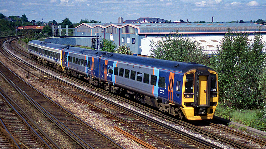 Express Sprinters 158667, consisting of vehicles 52867+57867 in Wales & West Alphaline livery and 158827, consisting of vehicles 52827+57827 still in Regional Railways livery with Alphaline branding, at Mount Pleasant, Southampton, with a Cardiff - Portsmouth service. Scanned from a Fujichrome 35mm slide.